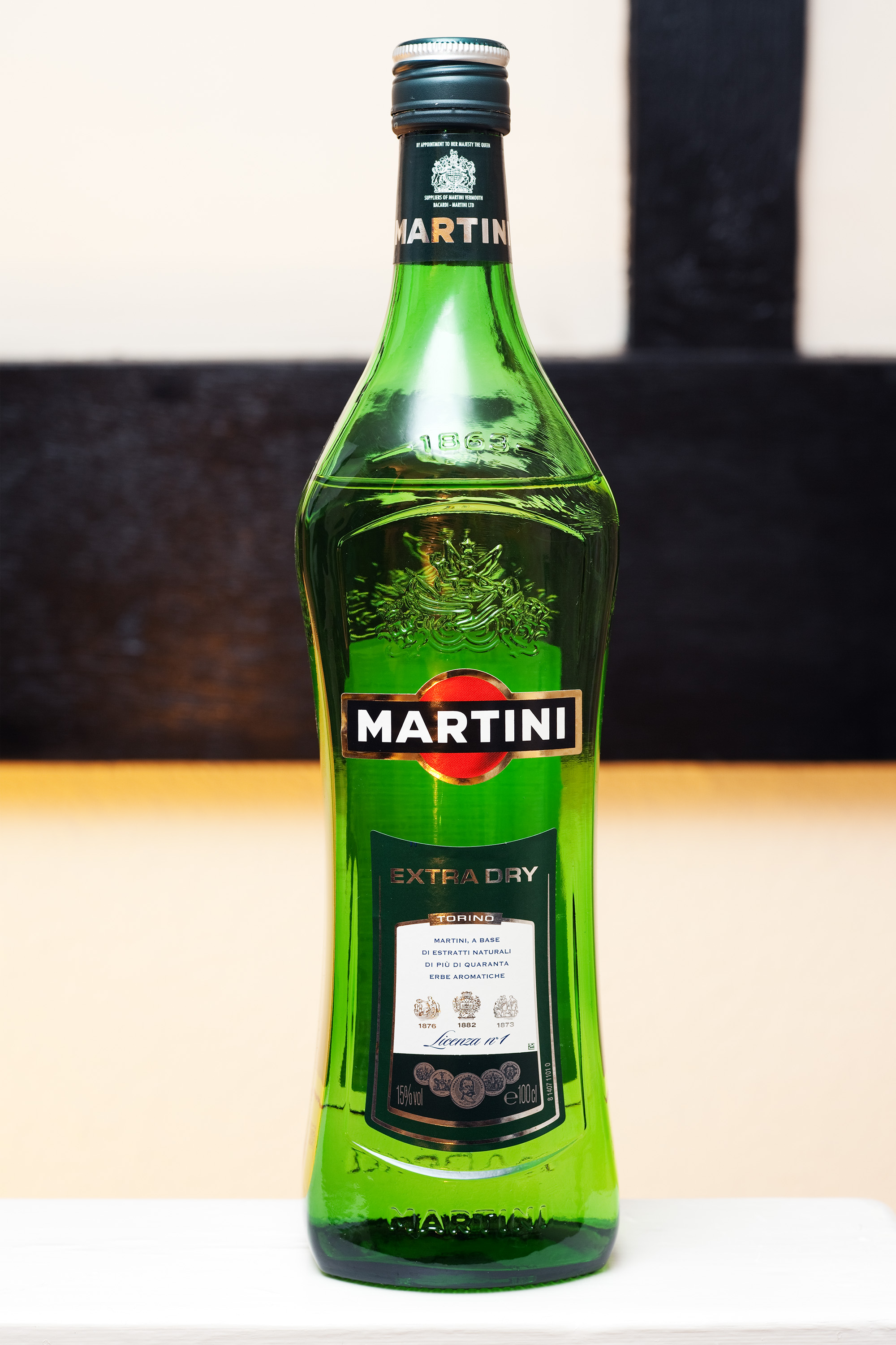 A bottle of Martini Extra Dry.